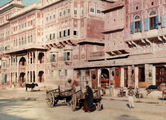 A view of the streets of Jaipur.